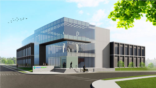 Mercy Health hospital expansion in Lima Ohio